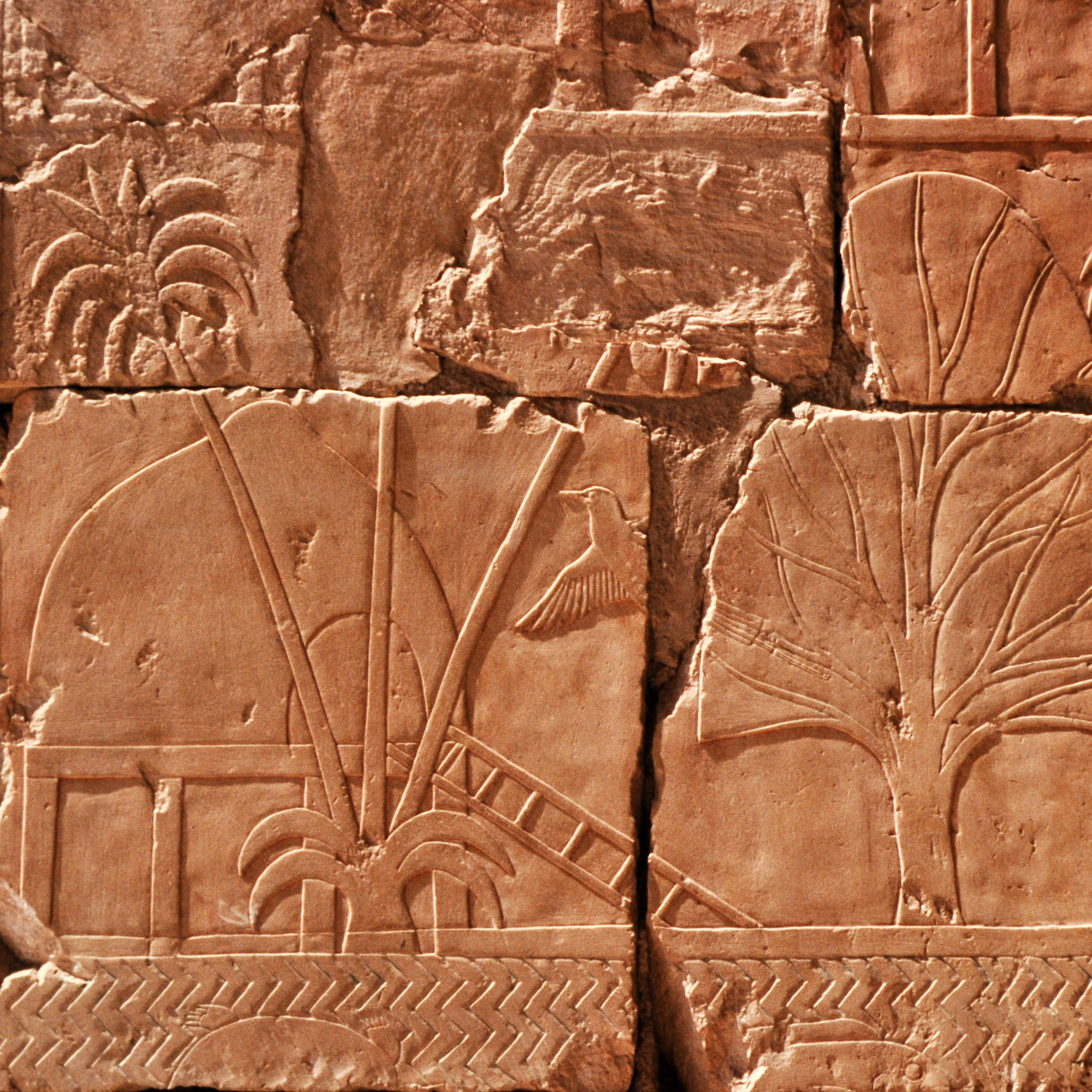 Egyptian expedition to Punt during the reign of Hatshepsut